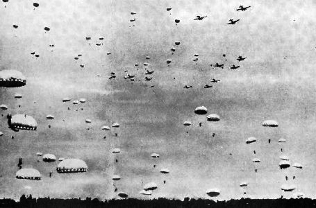 Imperial Japanese Army paratrooper are landing during the battle of Palembang, February 13, 1942.